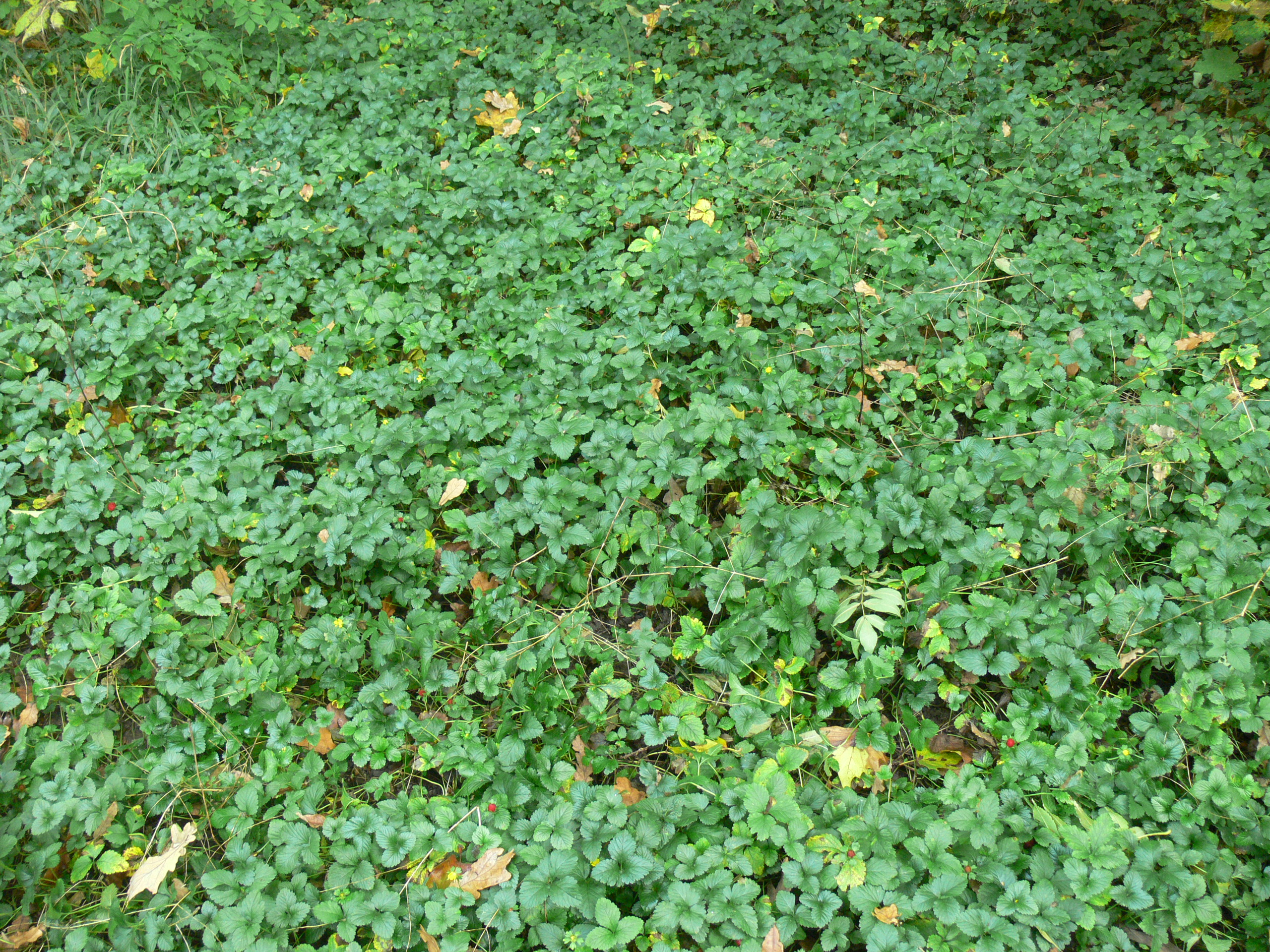 Duchesnea indica, invasive species, in the "Wood of Citadelle", Lille, North of France.